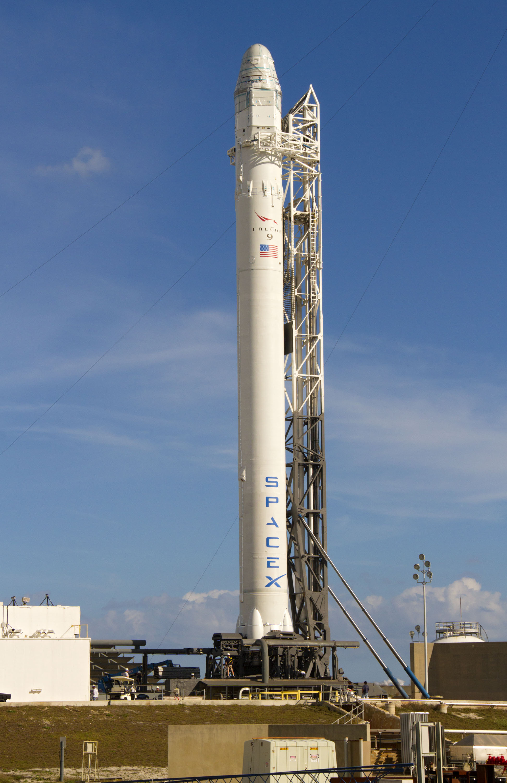 CAPE CANAVERAL, Fla. – Evaluation of a Falcon 9 rocket is under way on Space Launch Complex-40 on Cape Canaveral Air Force Station in Florida following a wet dress rehearsal on March 1, which included loading the rocket with its propellants and a simulated countdown. Atop the rocket is a Dragon capsule. The new rocket and capsule were designed and manufactured by Space Exploration Technologies Corp., or SpaceX, for the company’s upcoming demonstration test flight for NASA’s Commercial Orbital Transportation Services, or COTS, program. Under COTS, NASA has partnered with two private companies to develop the capability to deliver cargo to the International Space Station. During the flight, SpaceX's Dragon capsule will conduct a series of checkout procedures that will test and prove its systems. These tests include rendezvous and berthing with the space station and are intended to lead to regular resupply missions to the station. Liftoff is targeted for April 30 at 12:22 p.m. EDT pending official approval at the Flight Readiness Review on April 16. For more information, visit